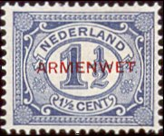 Dutch stamp: catalogue number nvph D8